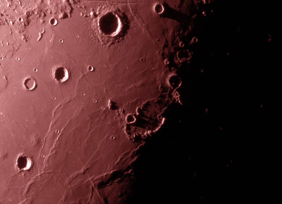 The Sea of Tranquility of the Moon. Infrared image in L band centred on 3.75 micrometres. Taken with the SIRCA camera by M. Gålfalk, G. Olofsson, and H.-G. Florén. Nordic Optical Telescope, Stockholm Observatory. More images can be found here.